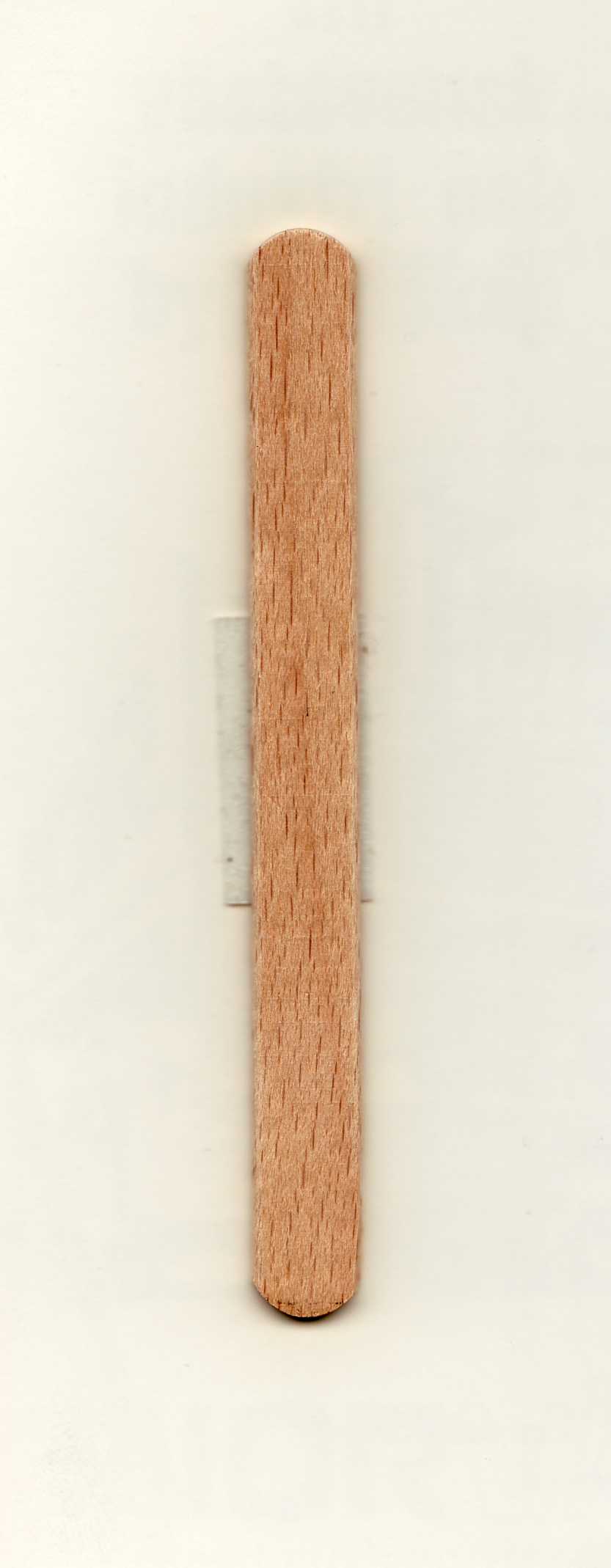 Detail from page 11 in the theatre programme of the revue Träsmak (1993) by Galenskaparna och After Shave. Yes, it's a standard ice cream stick, supposedly to give the audience träsmak ('woody feeling', figuratively a "sore bottom")…